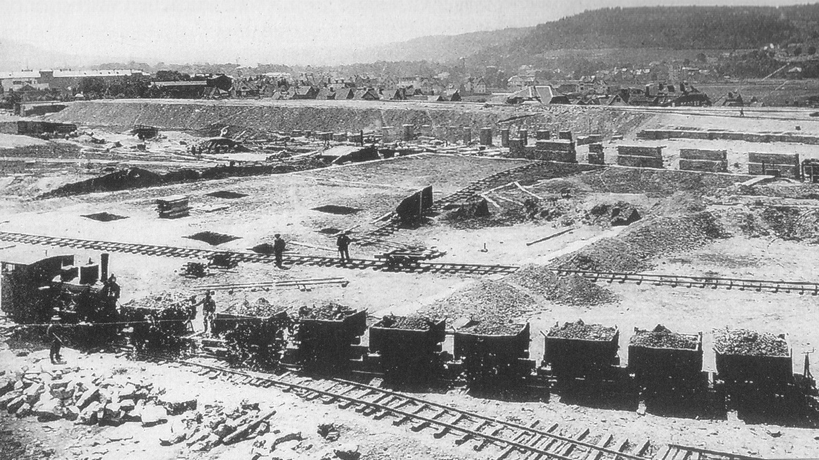 View of construction site of the future RAW and today's Steam Locomotive Works Meiningen in Germany at the start of construction in 1910.